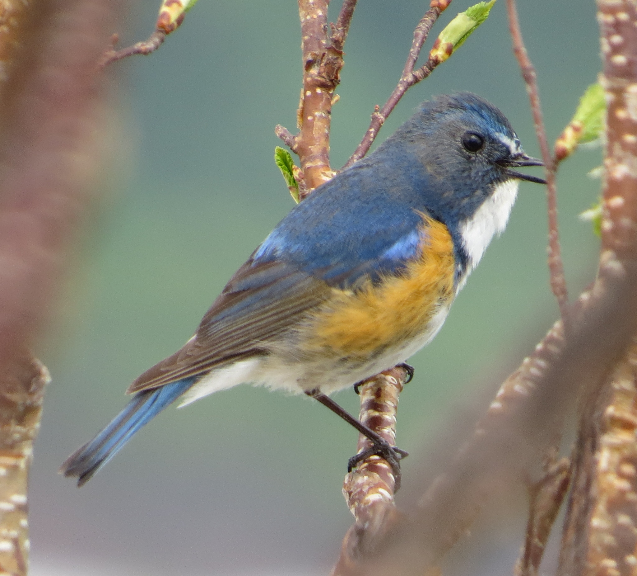 Tarsiger cyanurus (Red-flanked Bluetail), male singing on the branch, in Mount Haku, Gifu prefecture, Japan.